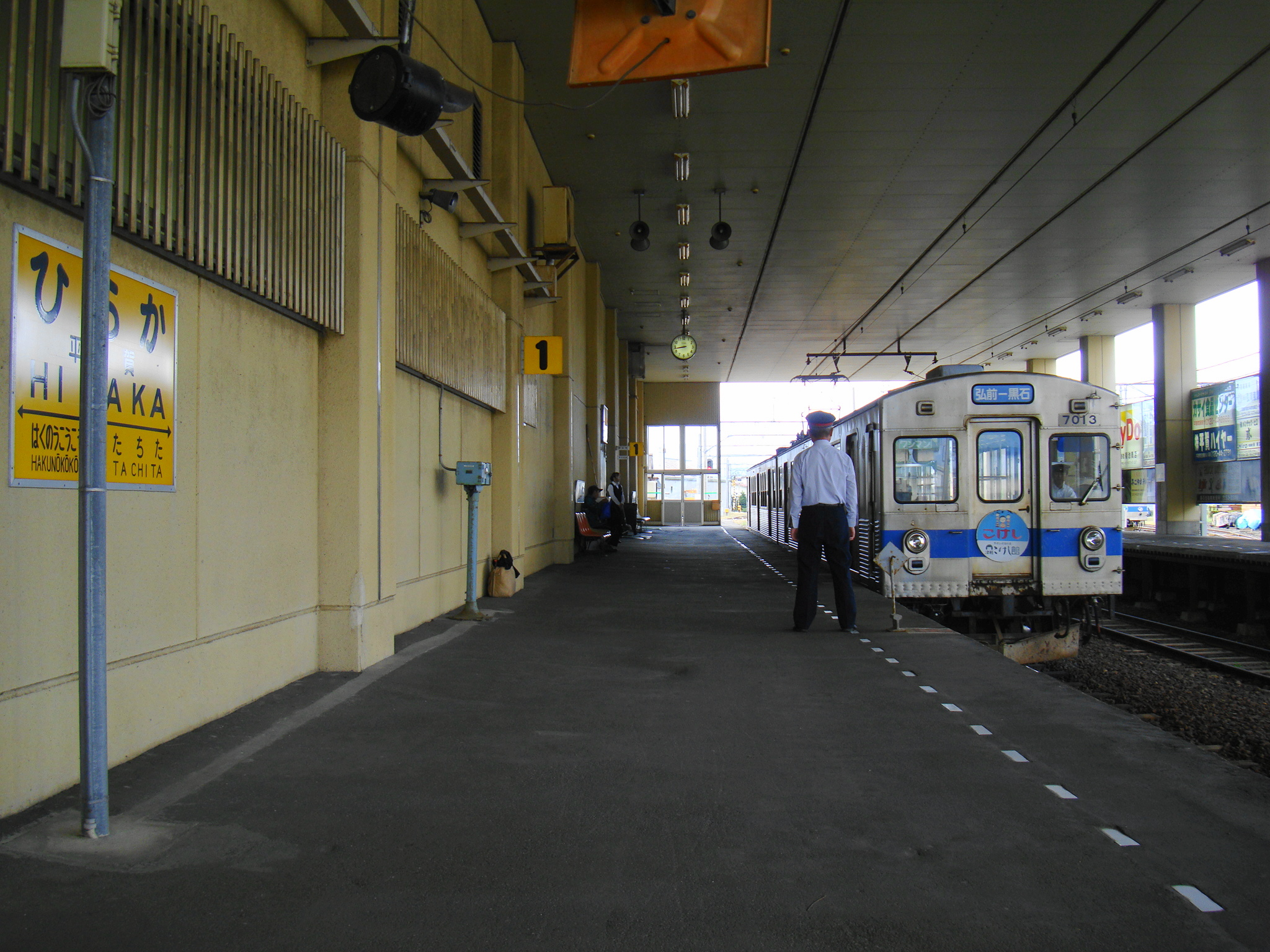 Hiraka Station